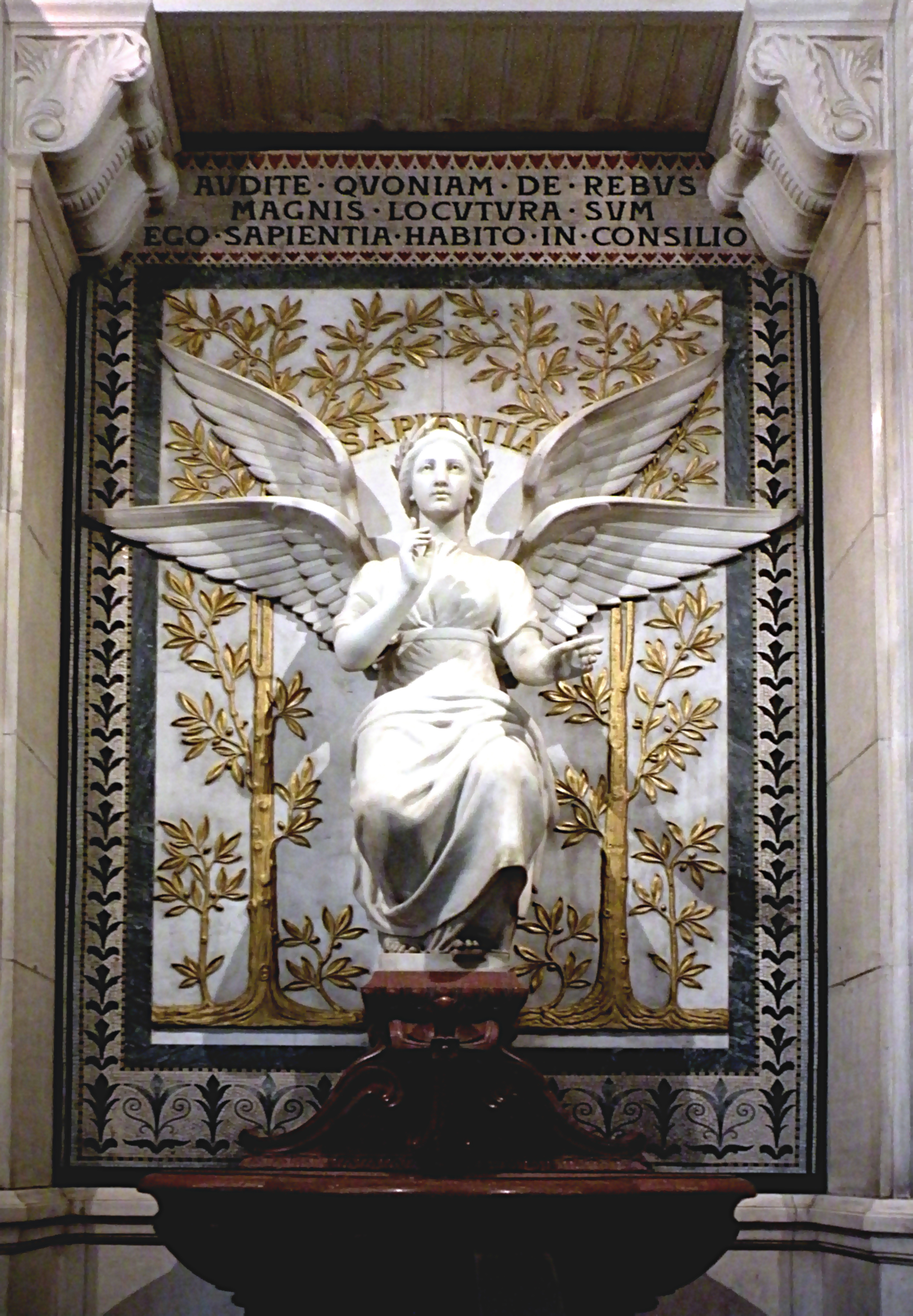 Reason (Central figure of Basilica of Notre-Dame de Fourvière on the hill in Lyon.)